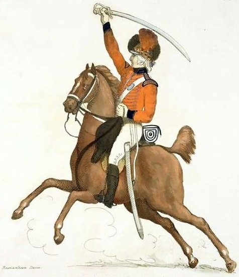 A painting by Thomas Rowlandson of a Volunteer Corps cavalryman from Southwark